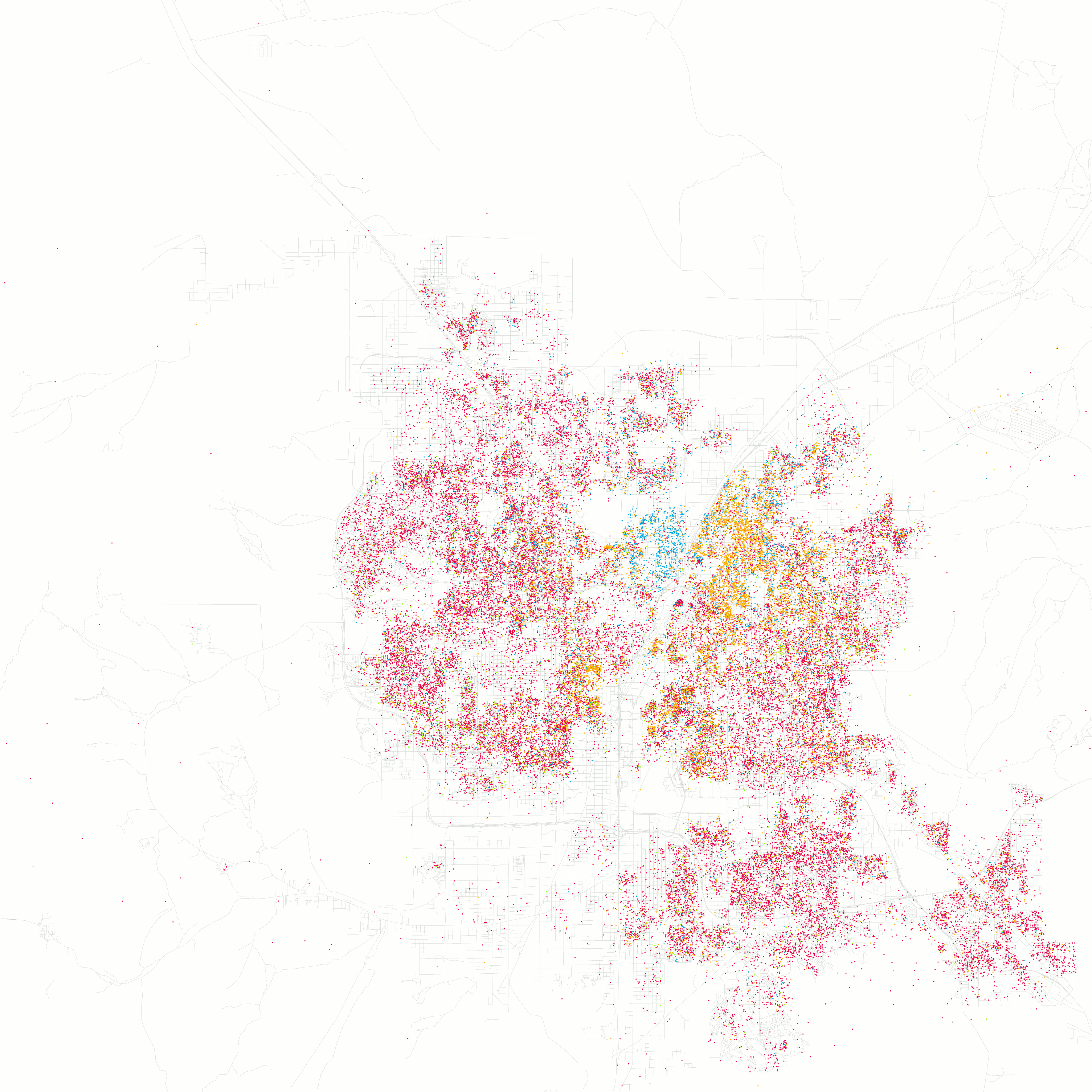 [Eric Fisher] was astounded by " Bill Rankin's map of Chicago's racial and ethnic divides and wanted to see what other cities looked like mapped the same way. To match his map, Red is White, Blue is Black, Green is Asian, Orange is Hispanic, Gray is Other, and each dot is 25 people. Data from Census 2000. Base map © OpenStreetMap, CC-BY-SA